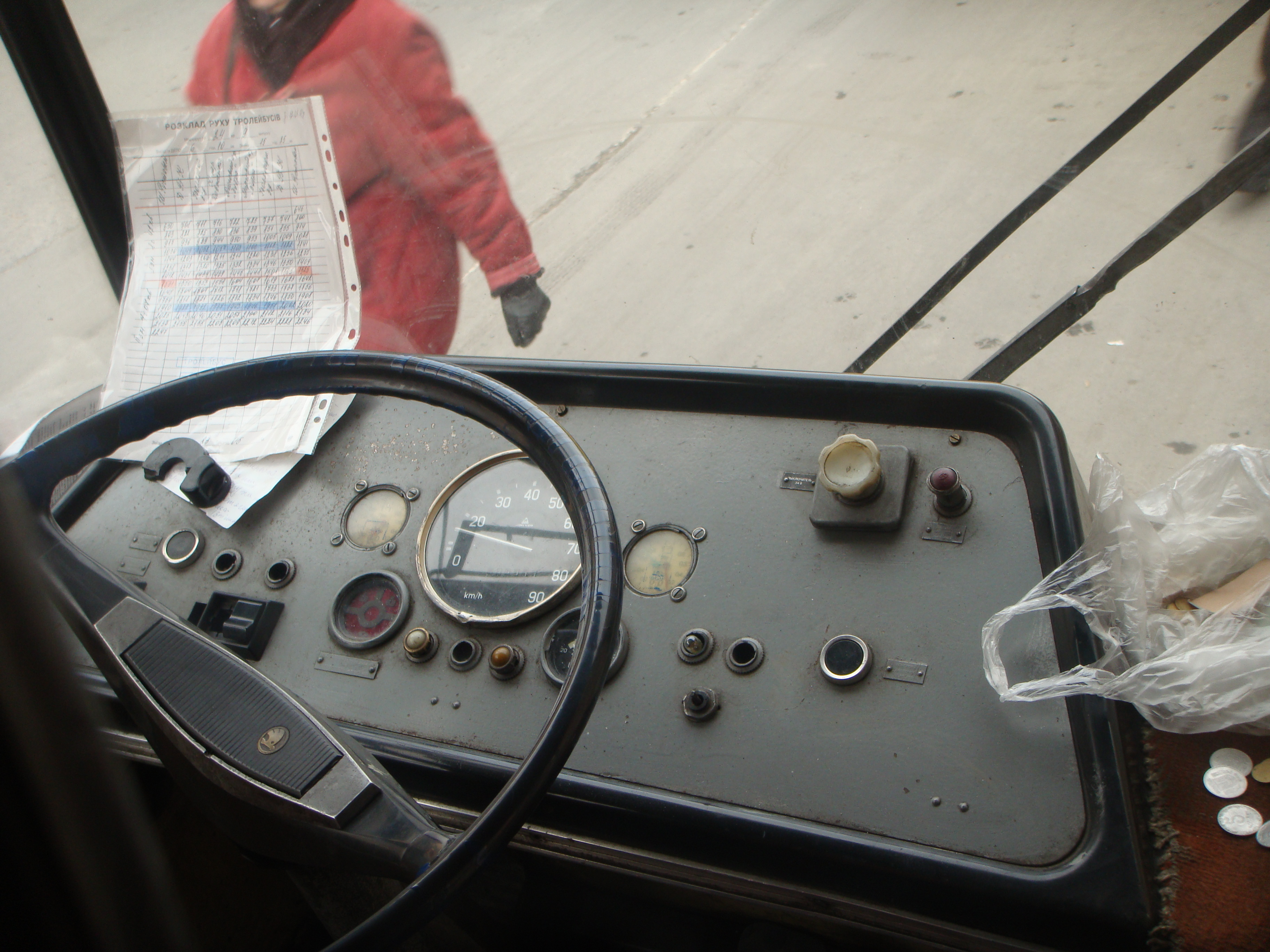 Cockpit of Škoda 14Tr